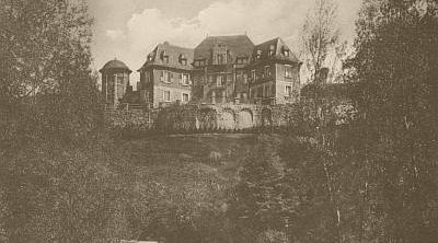 The mansion from Wilhelm Kocherscheidt in Mettmann (Germany) called Koburg.